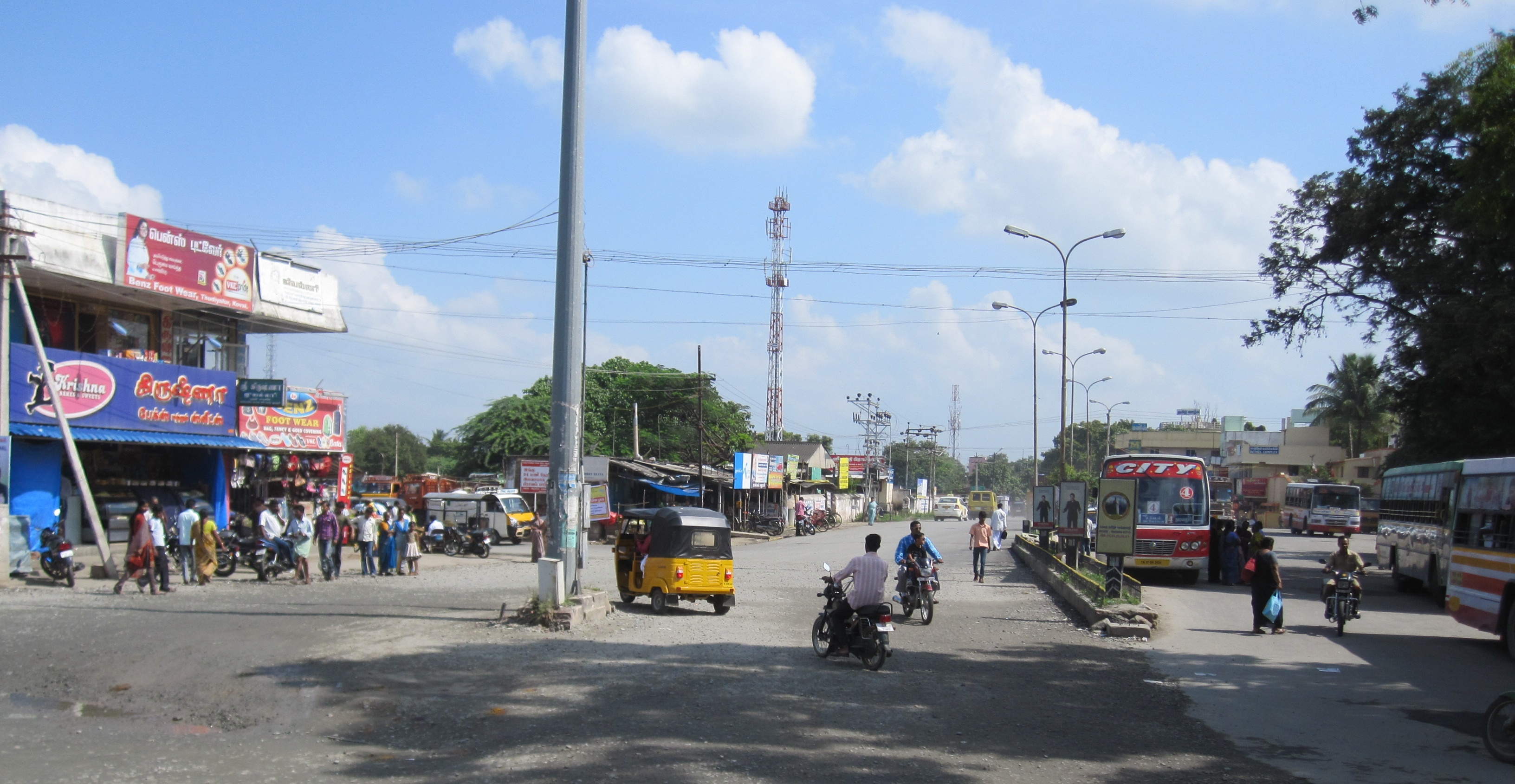 Thudiyalur busstand, coimbatore (on mettupalayam road)